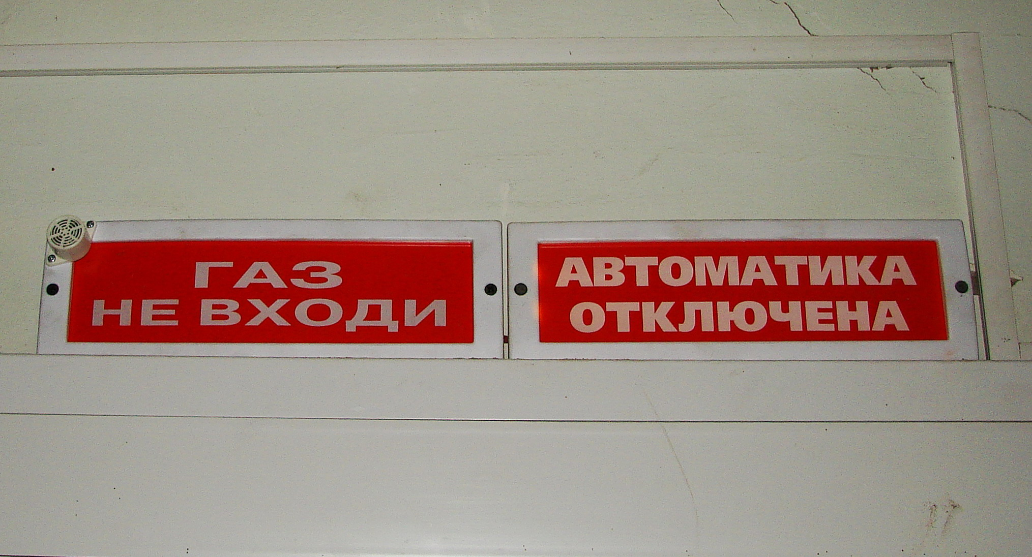 information board "Gas – does not come in" and "Automation is disabled" automatic fire extinguishing system